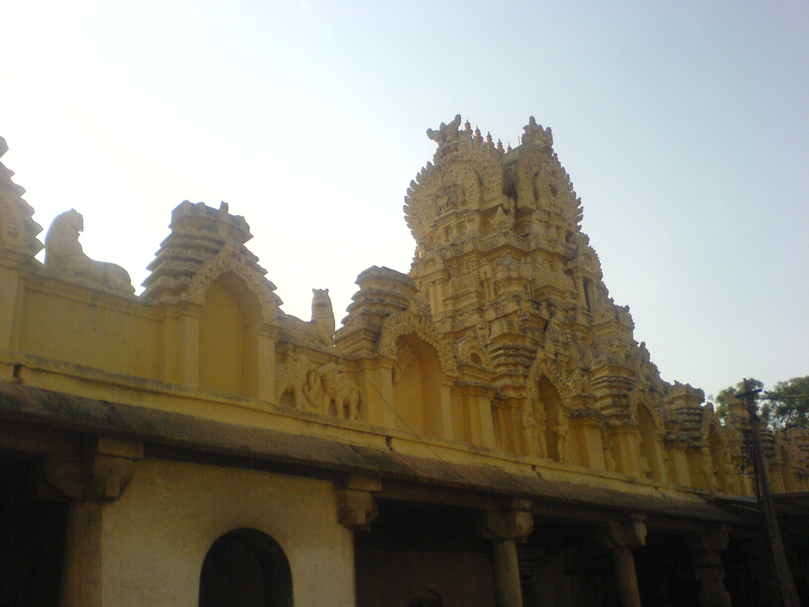 Cheluva Narayana Swamy Temple, Melukote, Mandya ಕನ್ನಡ: ಚೆಲುವರಾಯಸ್ವಾಮಿ ದೇವಾಲಯ, ಮೇಲುಕೋಟೆ